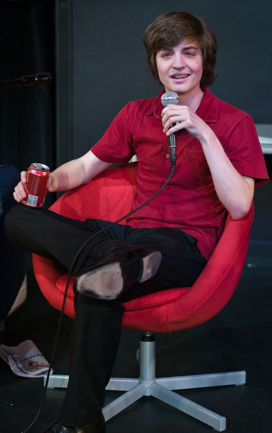 Simon Rich appearing as a guest on the May 20, 2009 episode of WFMU's Seven Second Delay